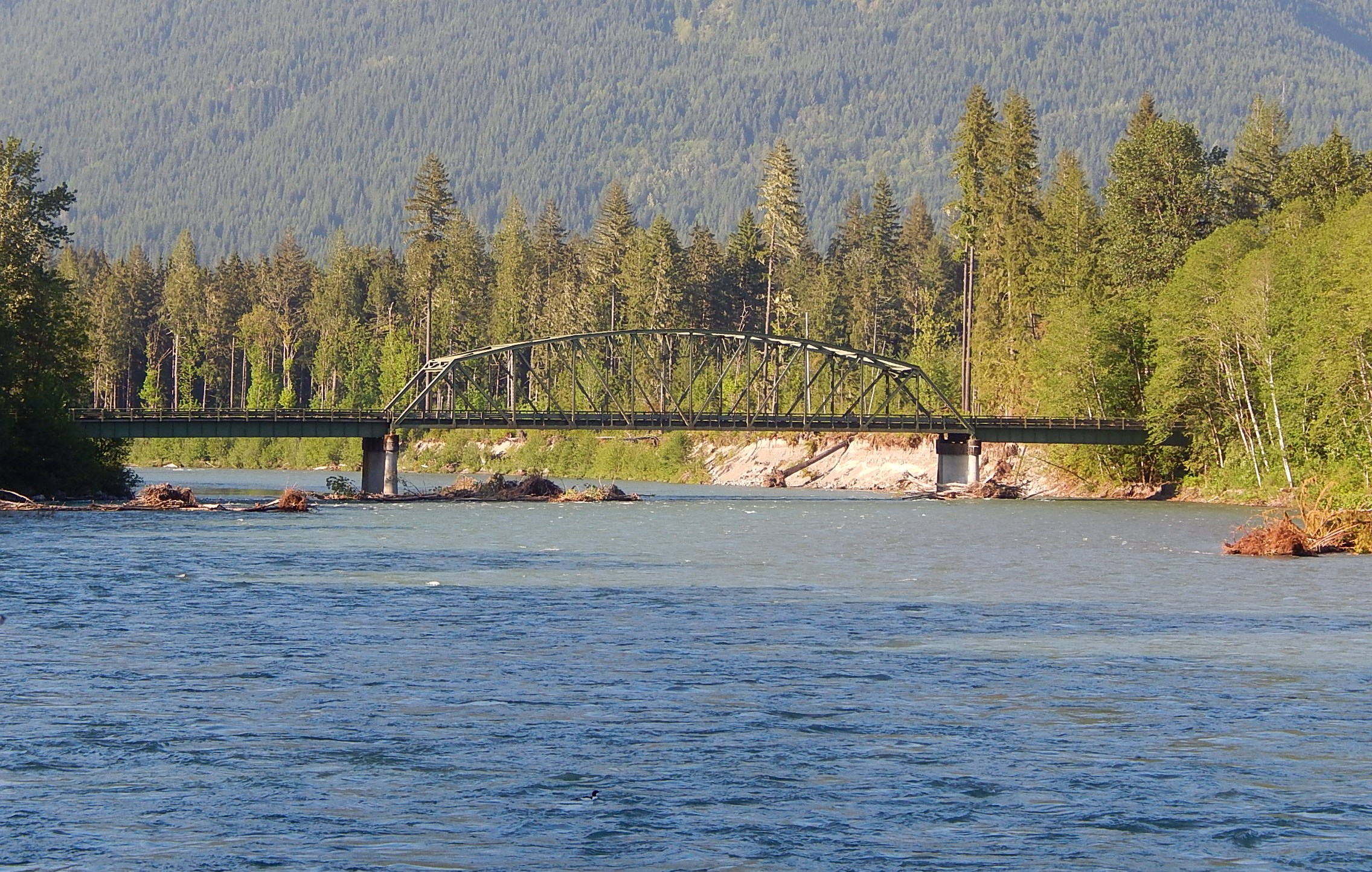 Sauk River Bridge Highway 530 between Darrington and Rockport, WA